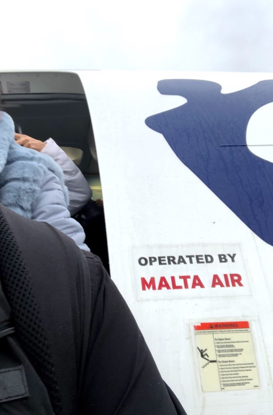 Malta Air logo on Ryanair aircraft doorway